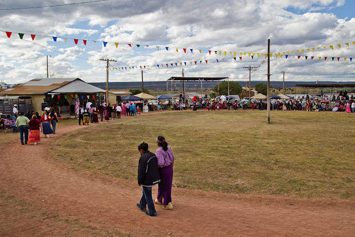 The Annie Wauneka Arena at the Navajo Nation fairgrounds in Window Rock, Arizona is primarily used for Navajo Song & Dance social competitions during the annual Navajo Nation fair